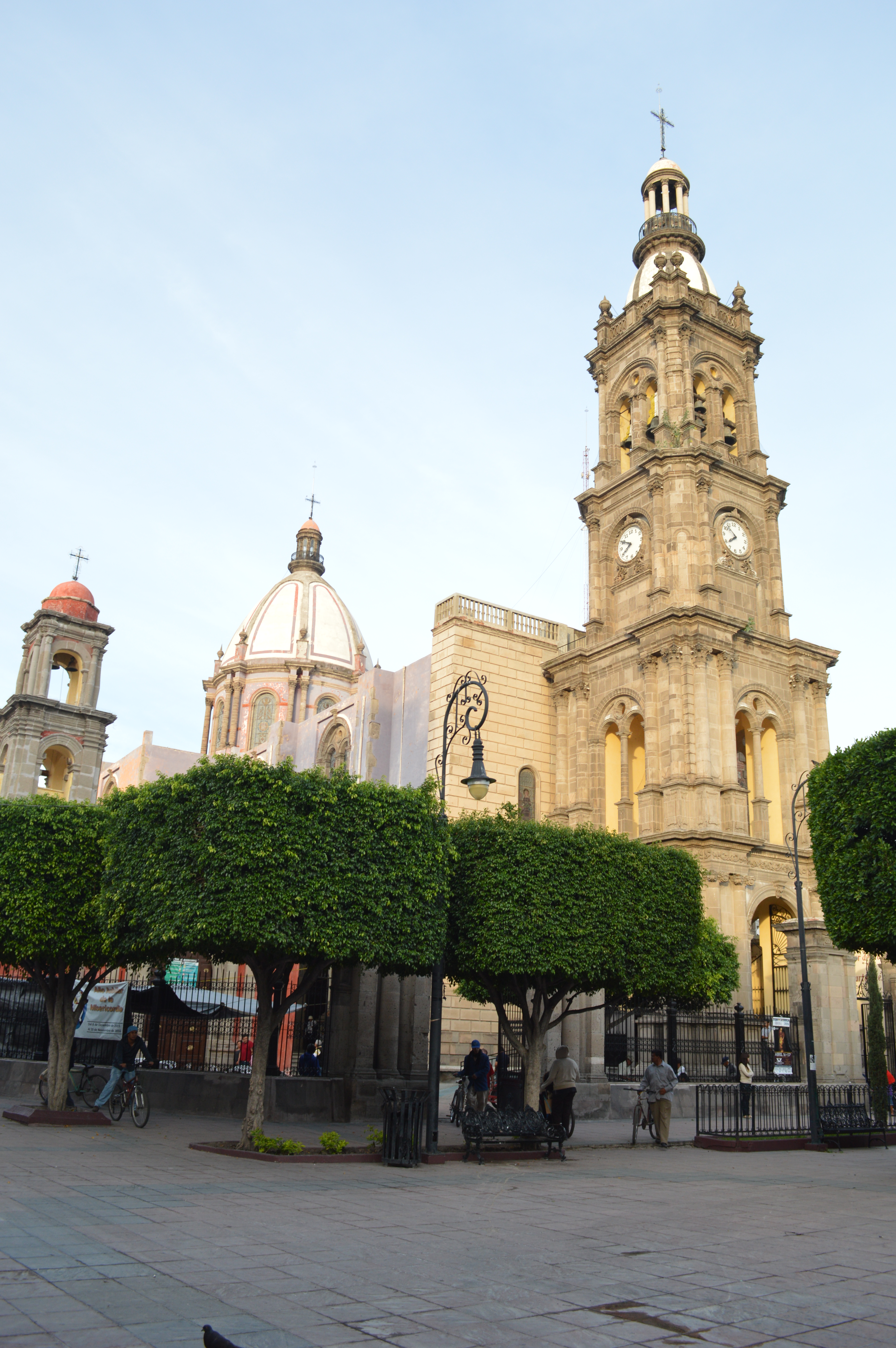 View of the parish of Señor del Hospital just off the main square in Salamanca, Guanajuato, Mexico